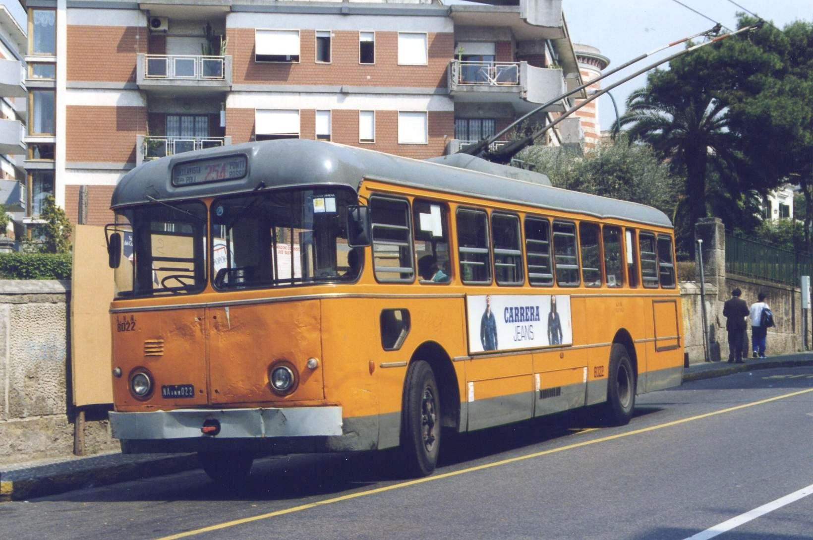 ANM trolleybus 8022, a 1961-built Alfa Romeo 1000F / Aerfer vehicle, laying over at the Bellavista terminus (renamed to Portici, Piazza Poli, in 2000/2001) of routes 254 and 254-red of the Naples ANM trolleybus system. No. 8022 was operating on route 254-red (route number shown in red) to Ponti Rossi. The last Alfa Romeo trolleybuses in ANM's fleet were retired from service in early 2001, and in 2007 routes 254-black and 254-red were merged as one route, 254.